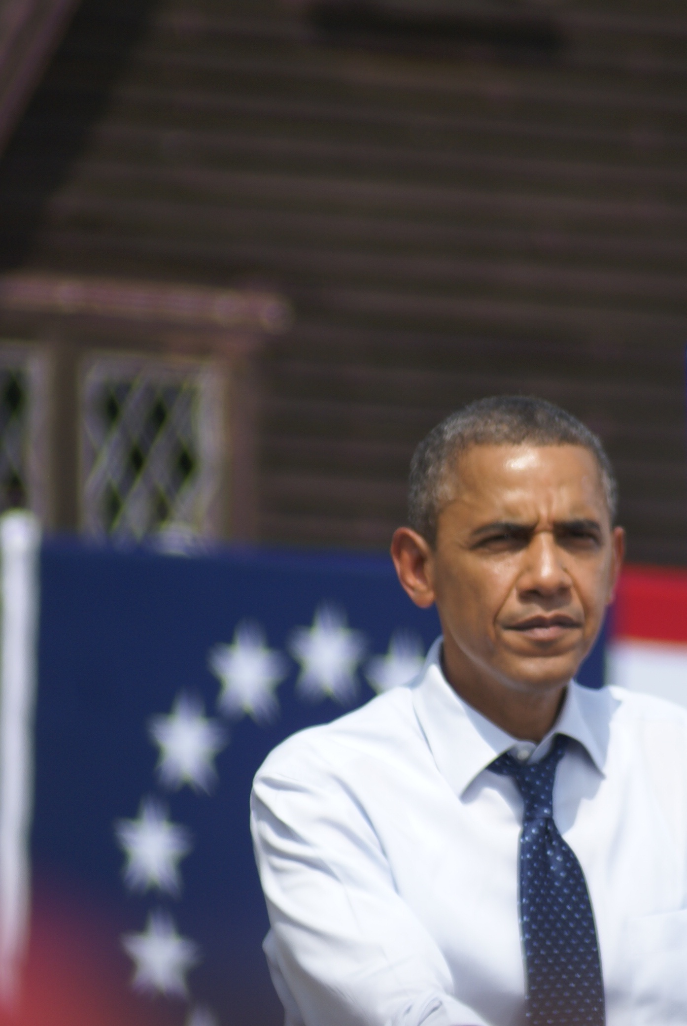 President Barack Obama campaigns in Portsmouth, New Hampshire during the 2012 United States Presidential Election.